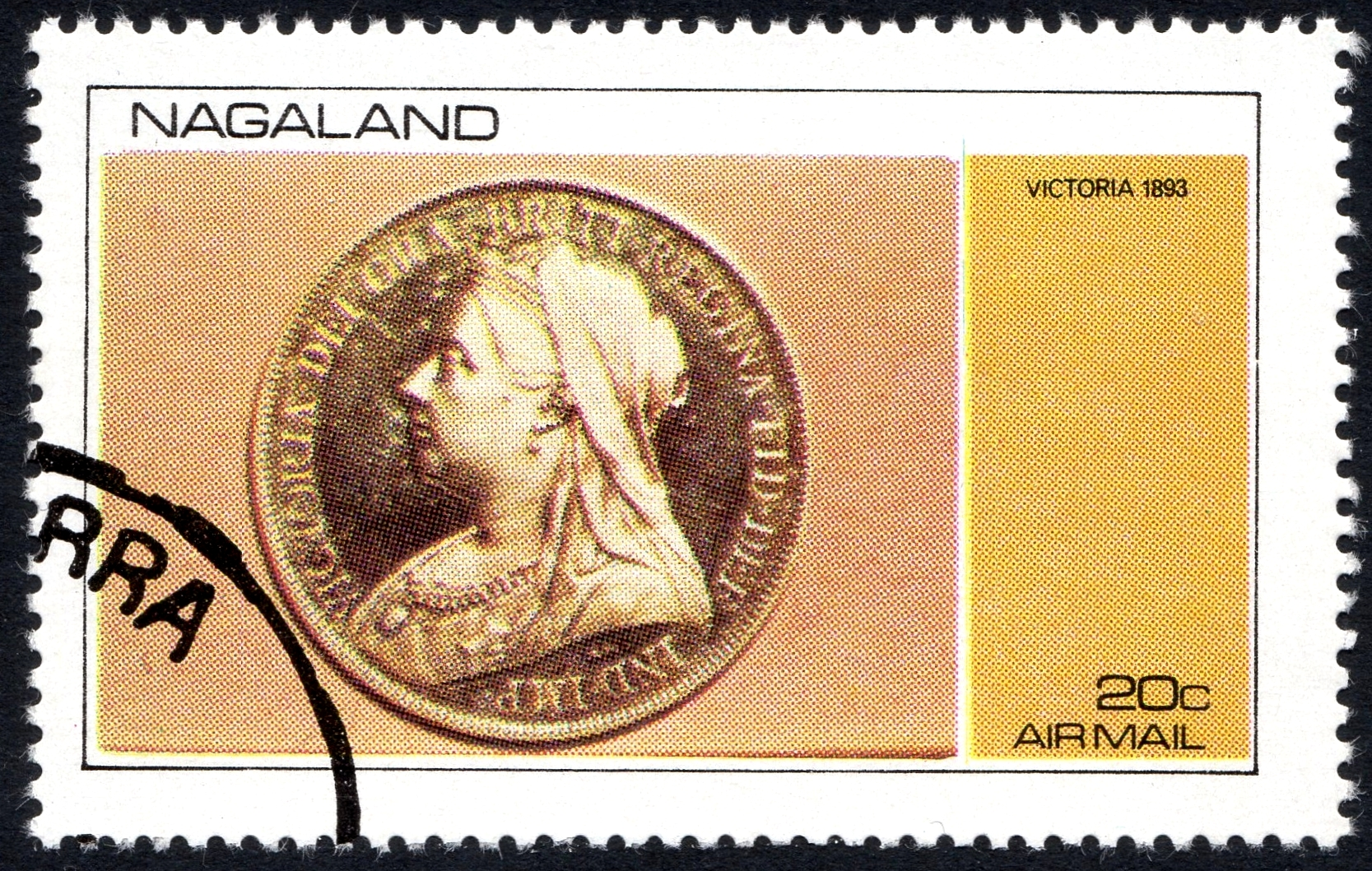 A bogus stamp of Nagaland, believed to have been created by Clive Feigenbaum or companies associated with him.